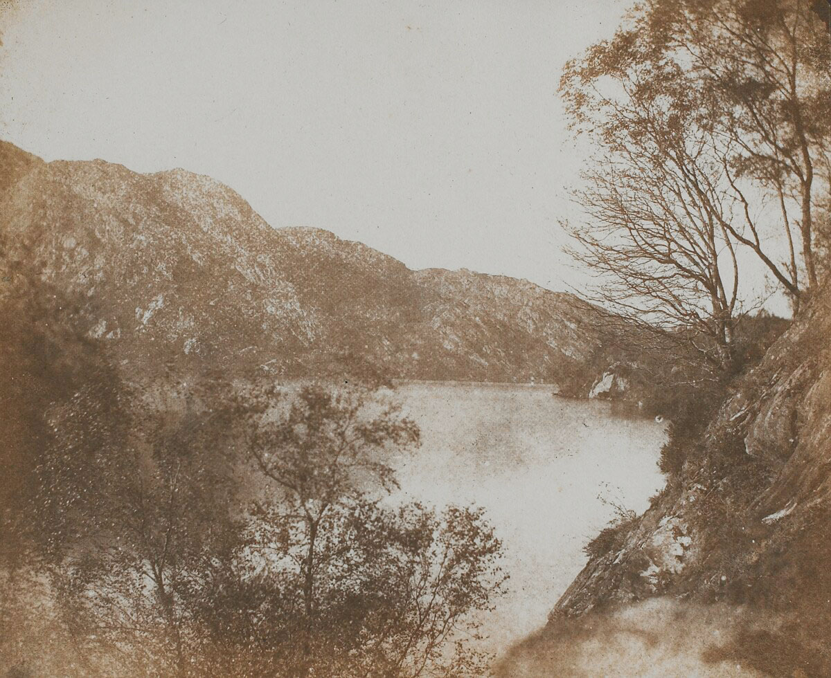 A photograph of Scotland's Loch Katrine. Part of the subscription series Sun Pictures in Scotland.